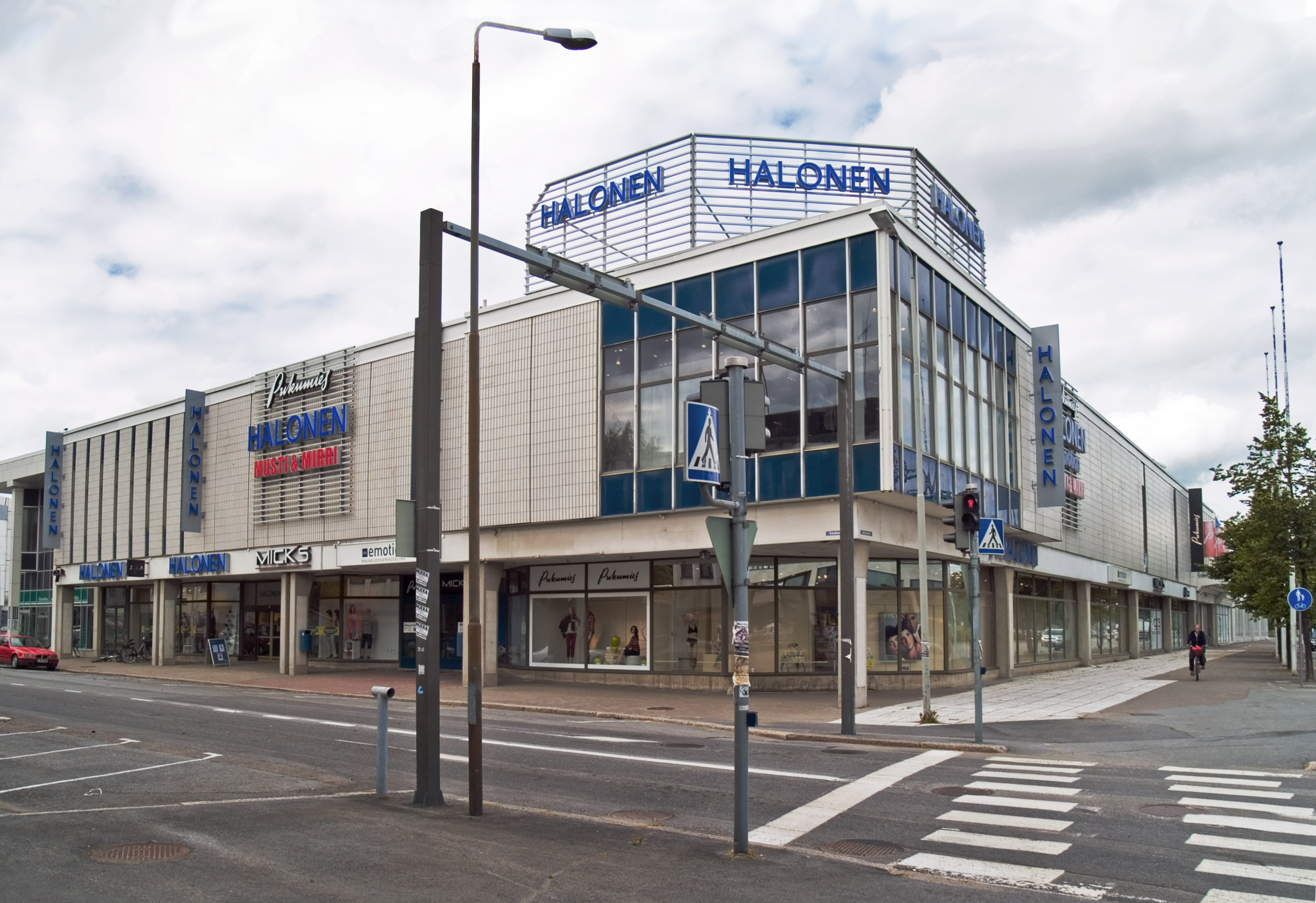 Shopping mall called Megakeskus in downtown Seinäjoki, Finland.